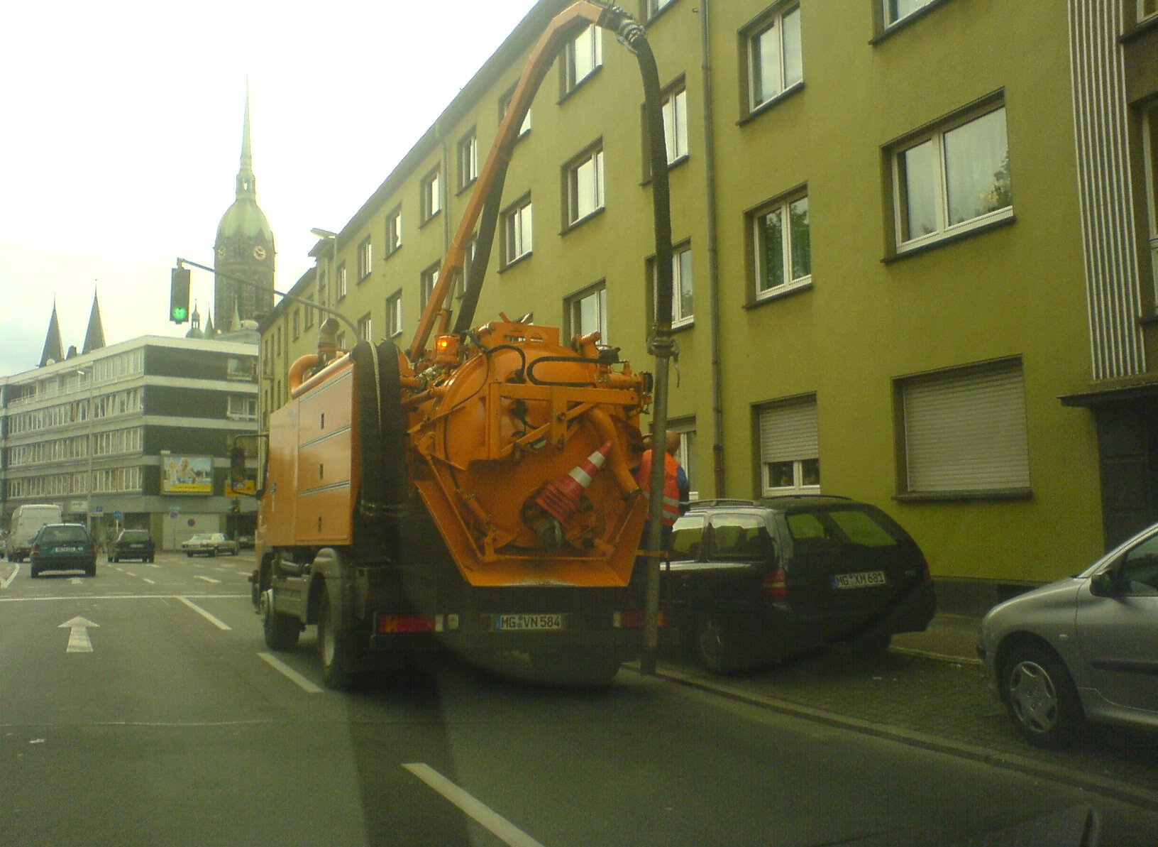 A truck for cleaning storm drains. Mönchengladbach, Germany.